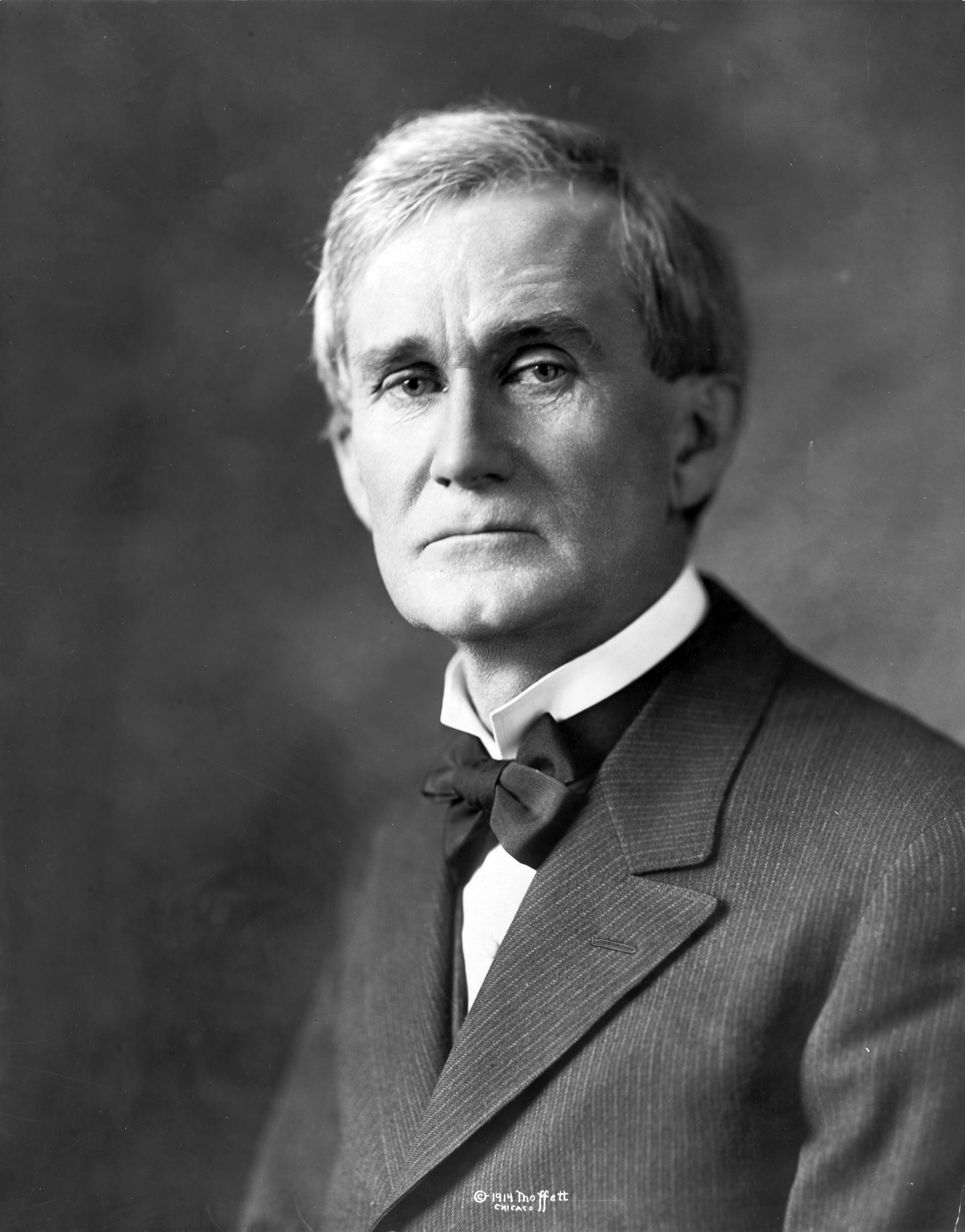 Portrait of Senator Lawrence Yates Sherman of Illinois.